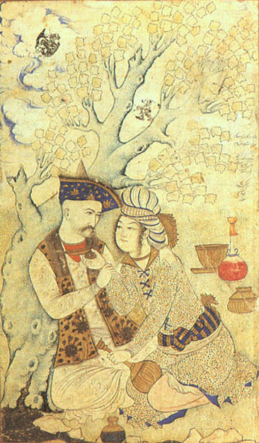 Shah Abbas and Wine Boy